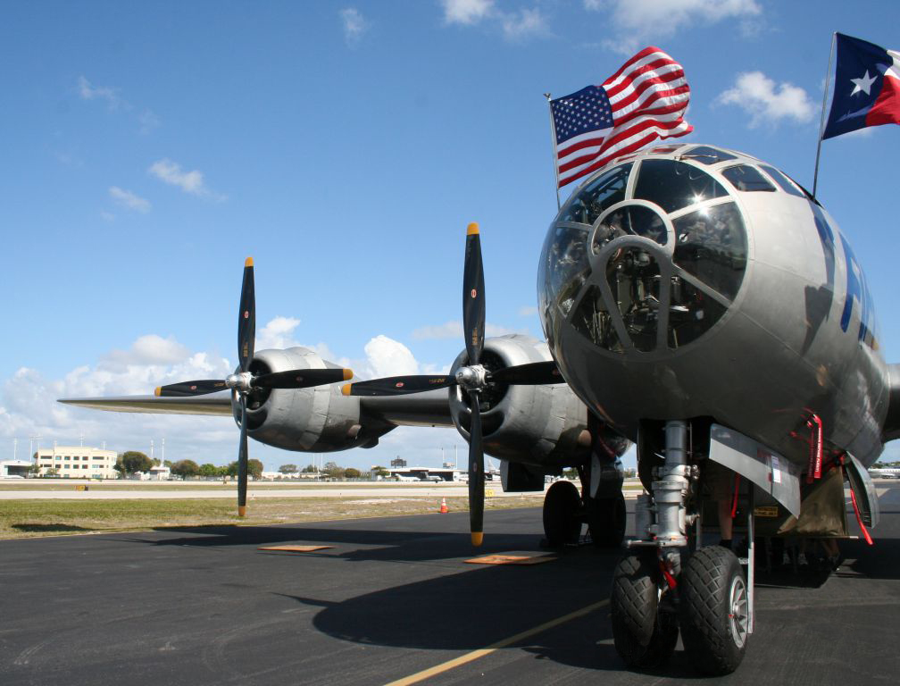 The "FIFI," the world's only flying B-29 Superfortress, visits Fort Lauderdale Executive Airport.